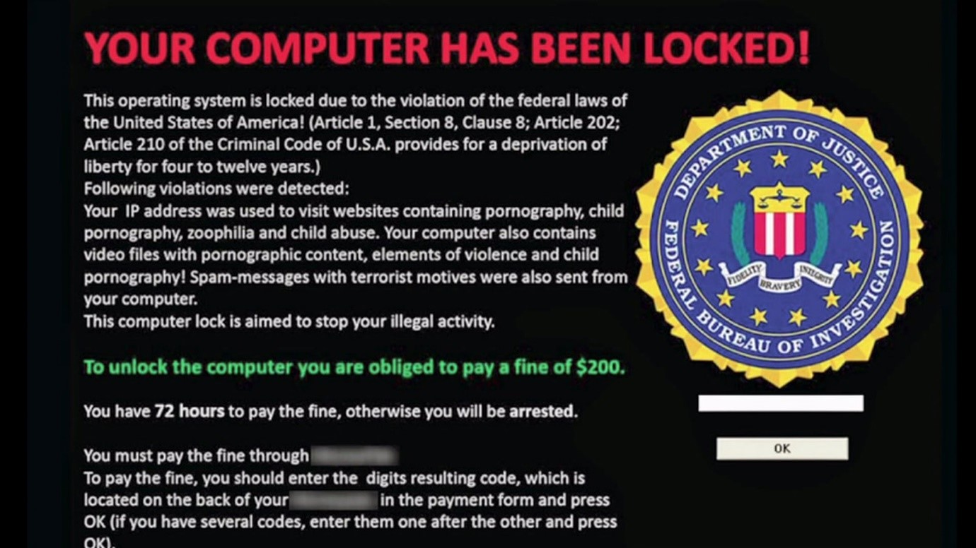 crypto